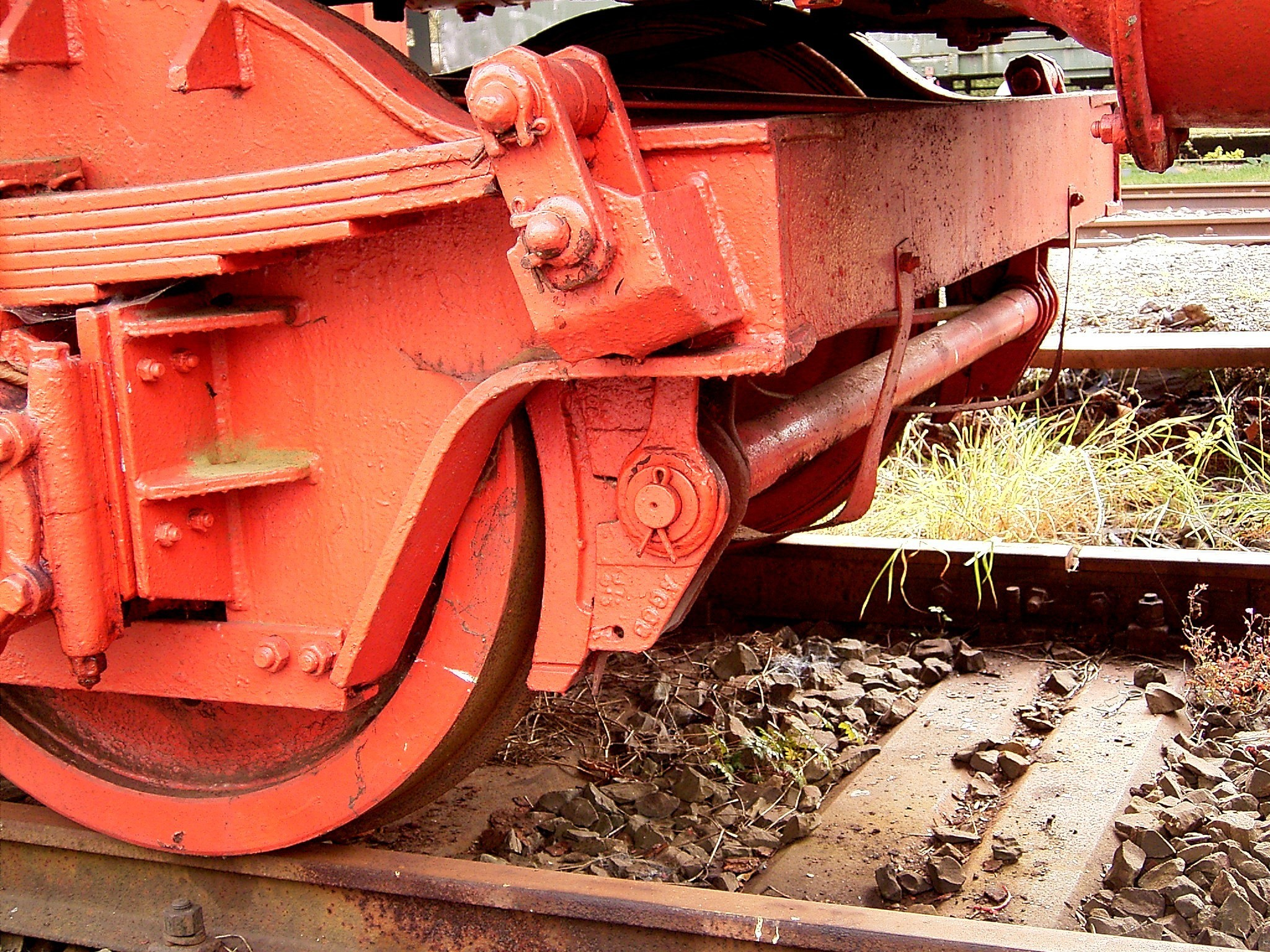 Steam locomotive DRB Class 52 in the railway museum of Radevormwald.